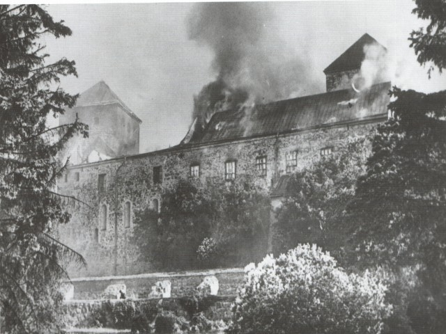 Turku castle burning in 1941 after Soviet Union bombed it